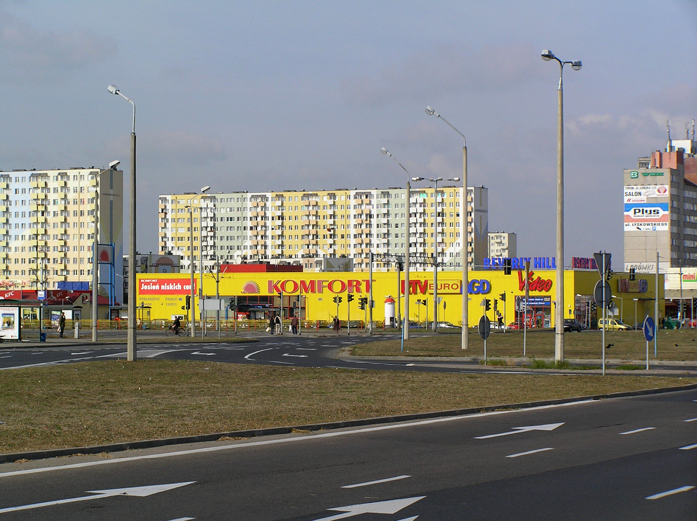 Toruń, Rubinkowo district